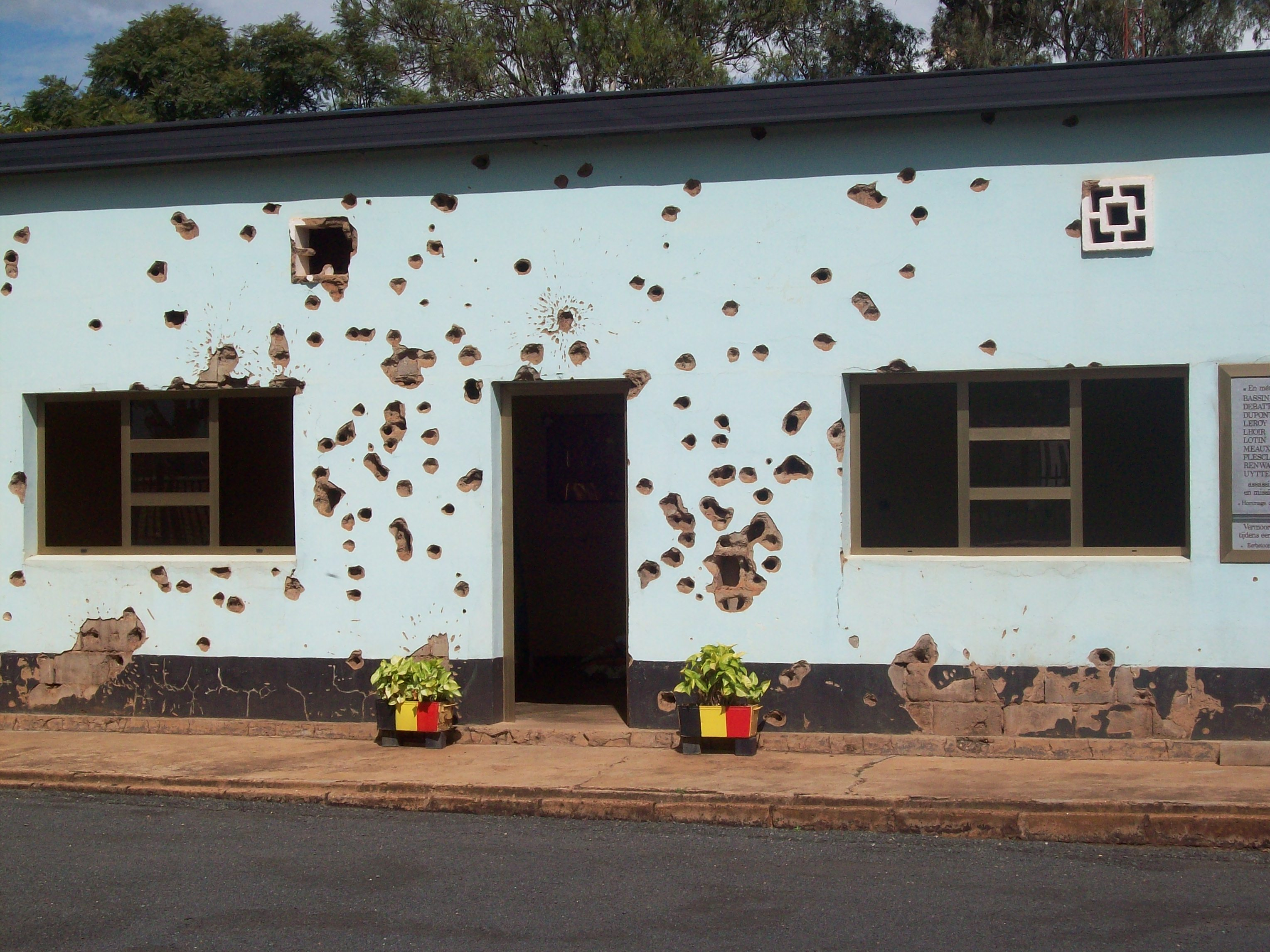 Memorial for the dead belgian UNAMIR Blue Berets in Kigali, Rwanda